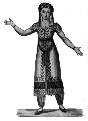 Charlotte Erikson as Preciosa